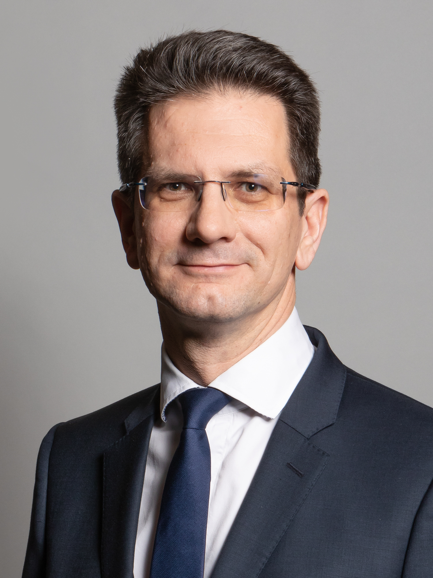 Official portrait of Mr Steve Baker MP 3×4 portrait of Mr Steve Baker